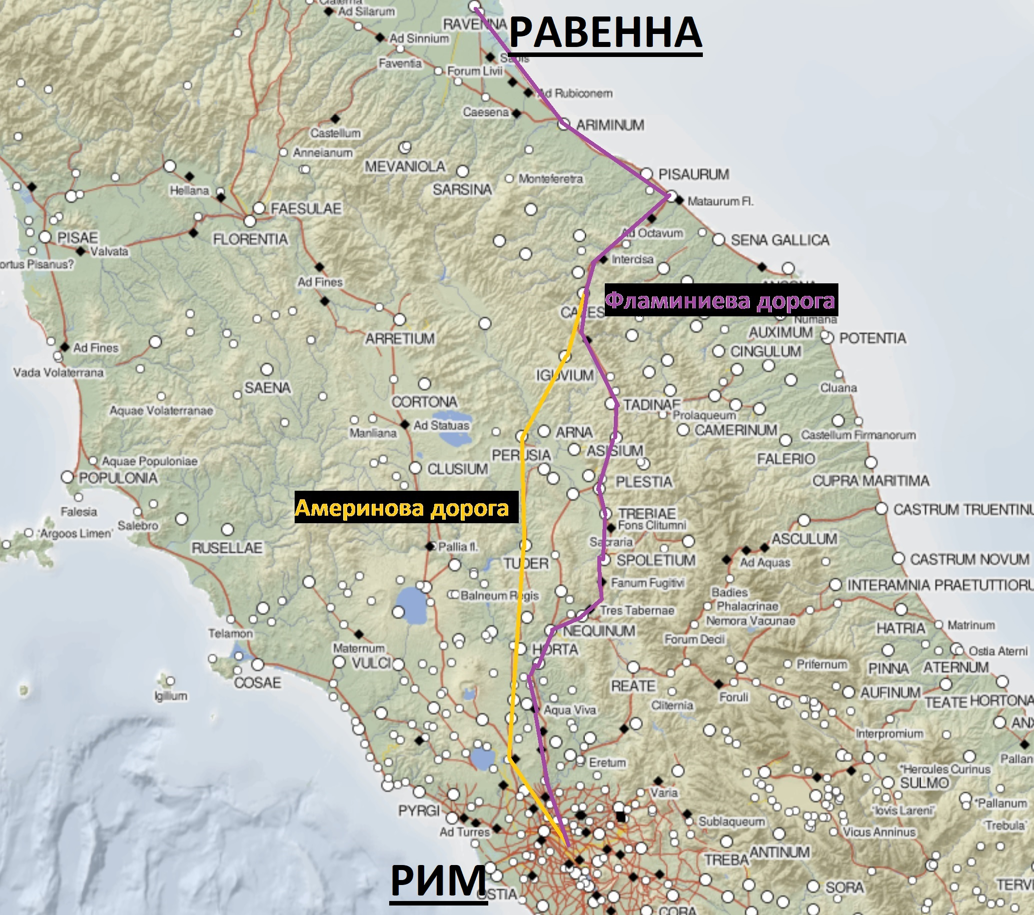 Byzantine corridor Via Amerina